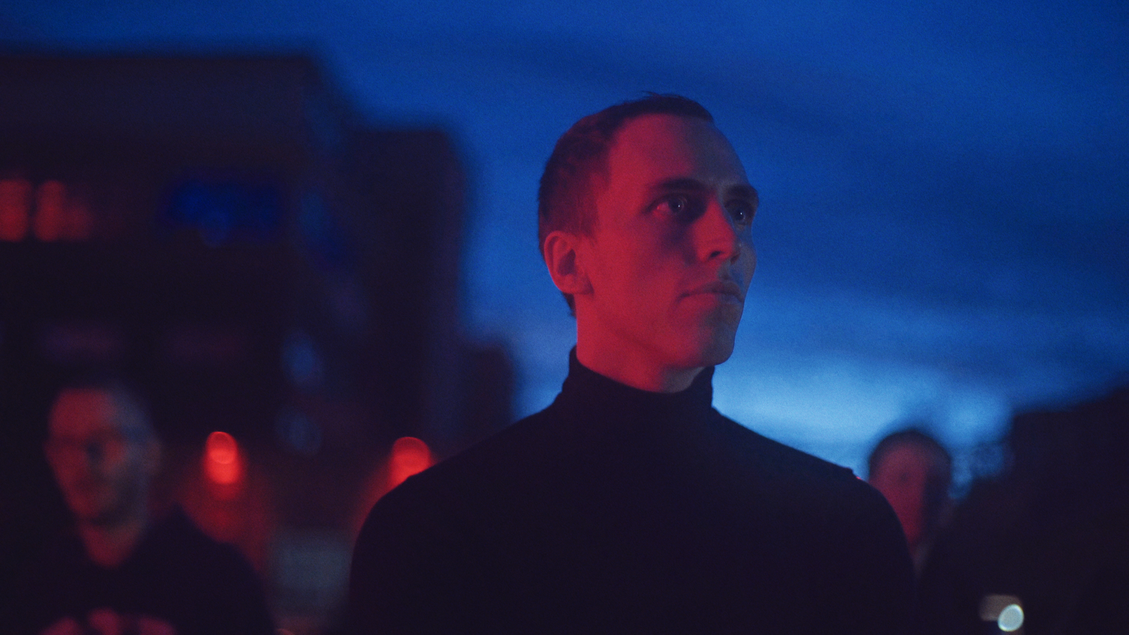 Martin Kohlstedt (German composer and pianist) at the 2017 Gamma Festival at the Stepan Razin Factory, St. Petersburg, Russia.